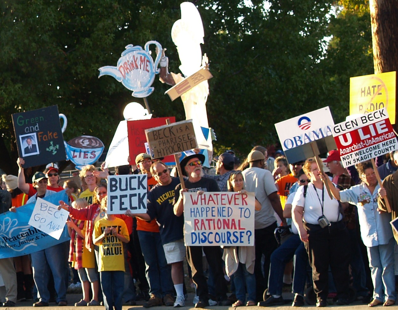 Cropped from a photo of a group of predominantly anti-Glenn Beck protesters holding home-made placards in Beck's hometown of Mt. Vernon, Washington, outside the venue where Beck received the ceremonial key to the town.